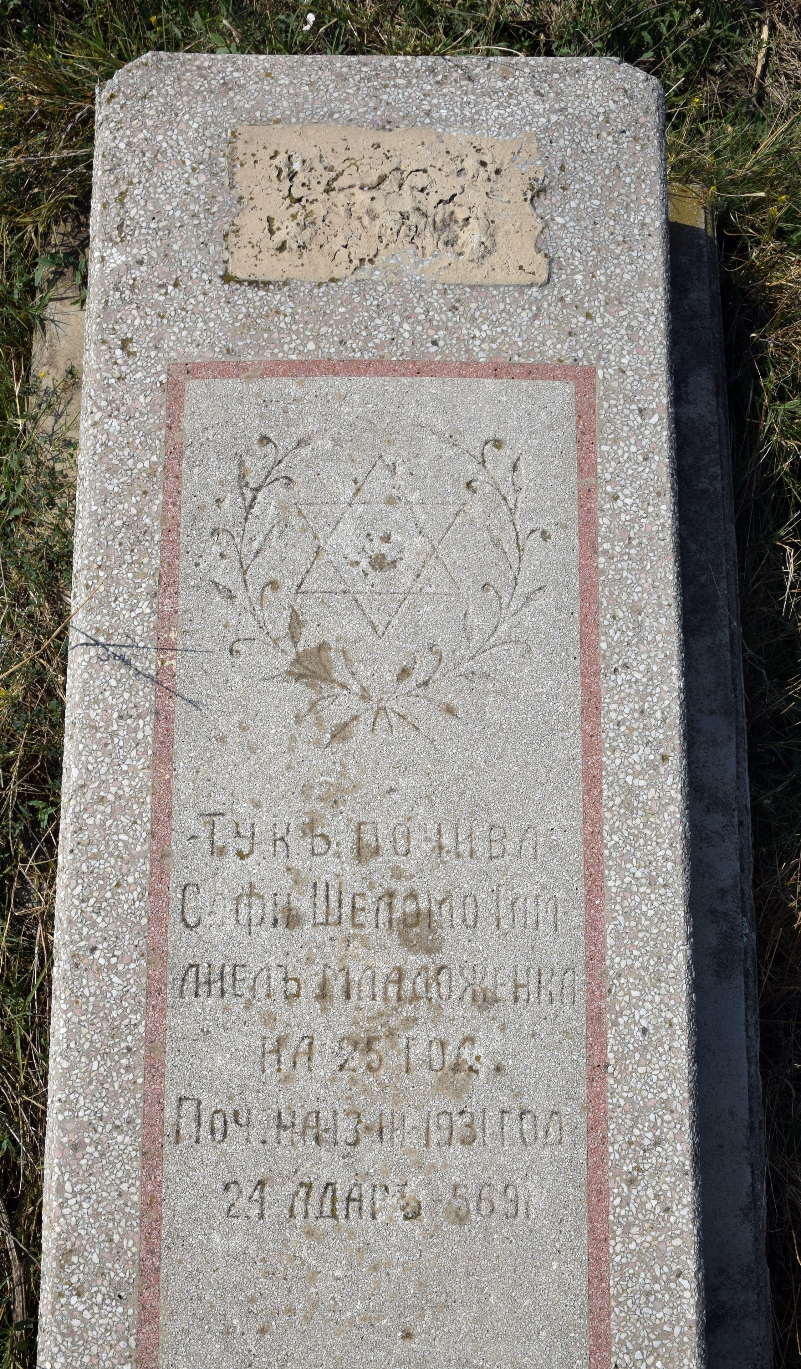 Jewish cemetery in Lom